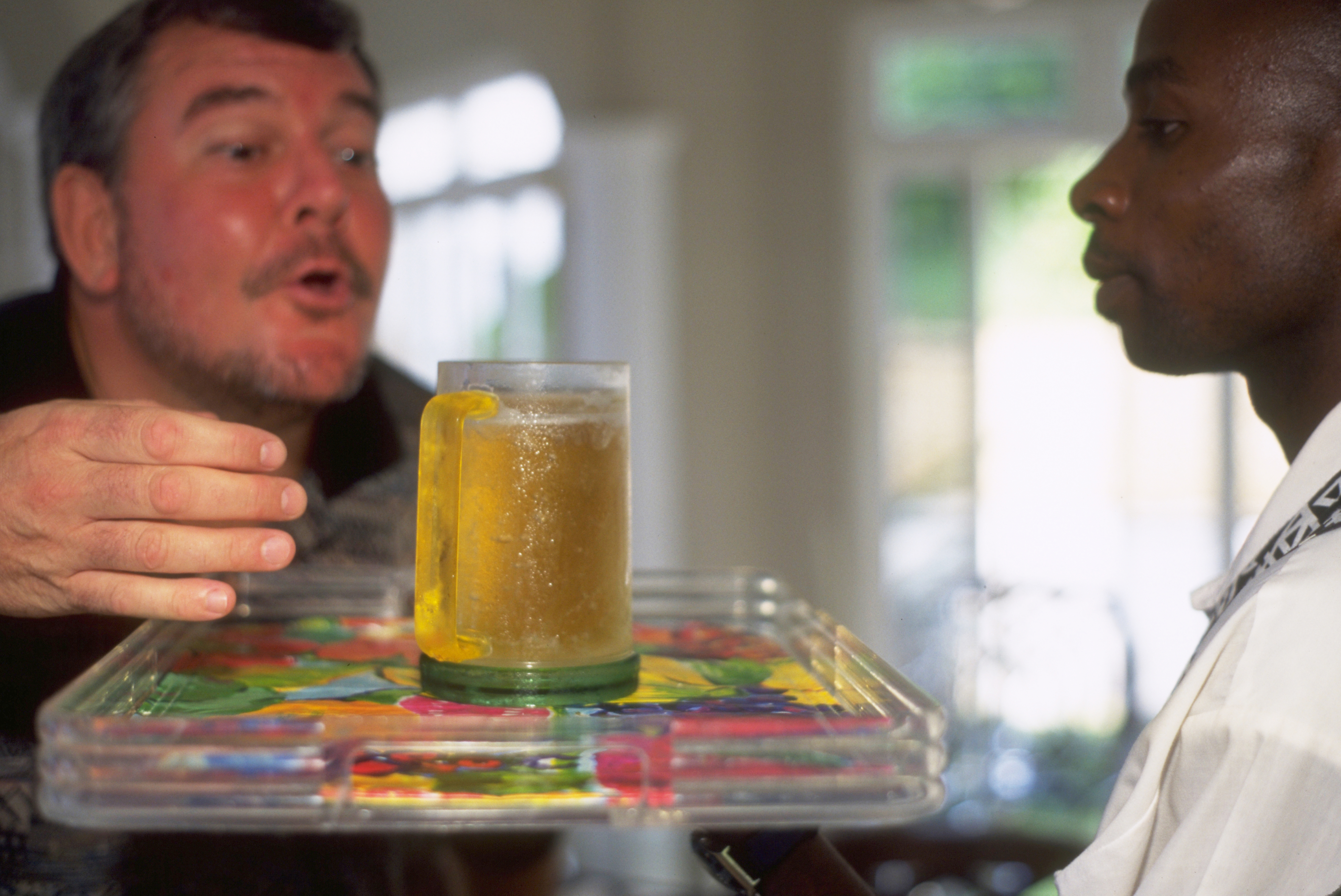 Bruce Hensley reaches for a cold beer in Jamaica.